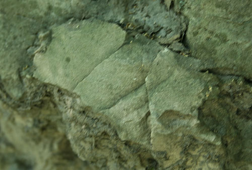 A closeup of fossilized reef, at the Schoonmaker Reef site, National Historic Landmark, Milwaukee, Wisconsin.